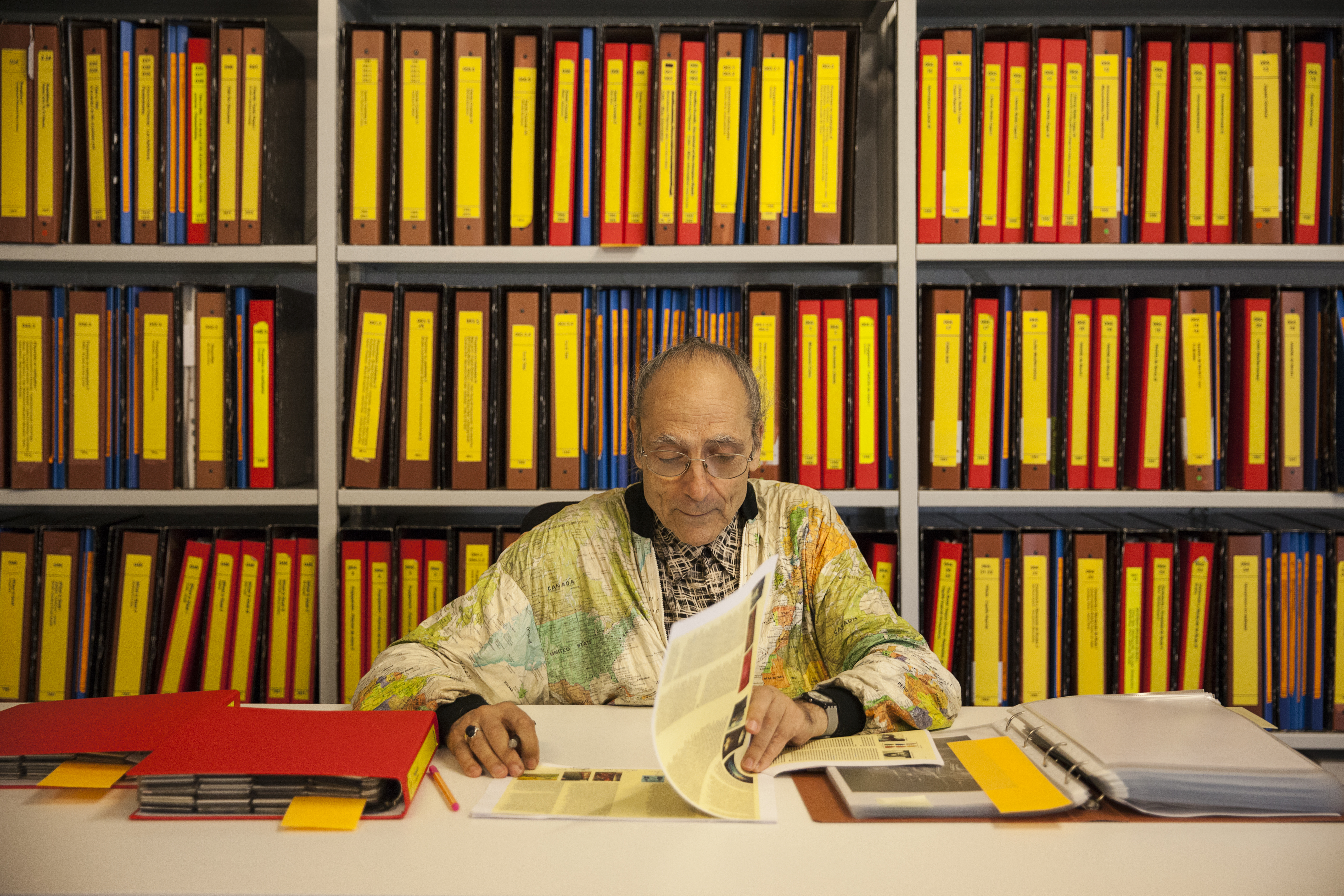 L'artista ultima els detalls de la maqueta de la publicació per a la propera exposició al MACBA al seu arxiu, un espai cedit temporalment pel museu per tal de poder dipositar els materials originals durant el procés de producció. Foto: Gemma Planell / MACBA